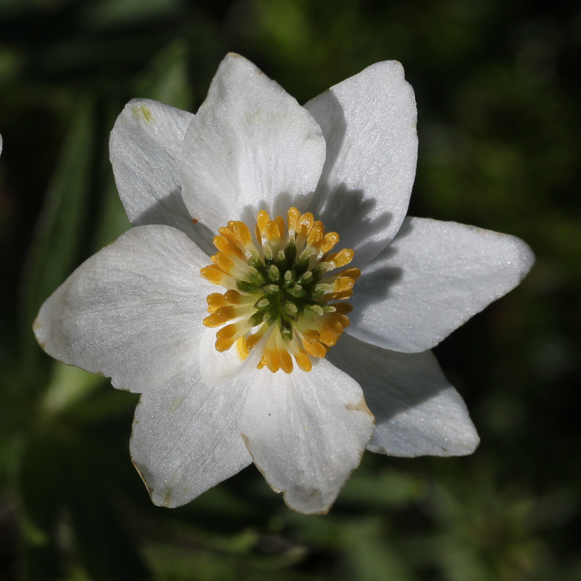 Anemone narcissiflora L. subsp. nipponica, in Mount Tsurugi, Kamiichi, Toyama prefecture, Japan.